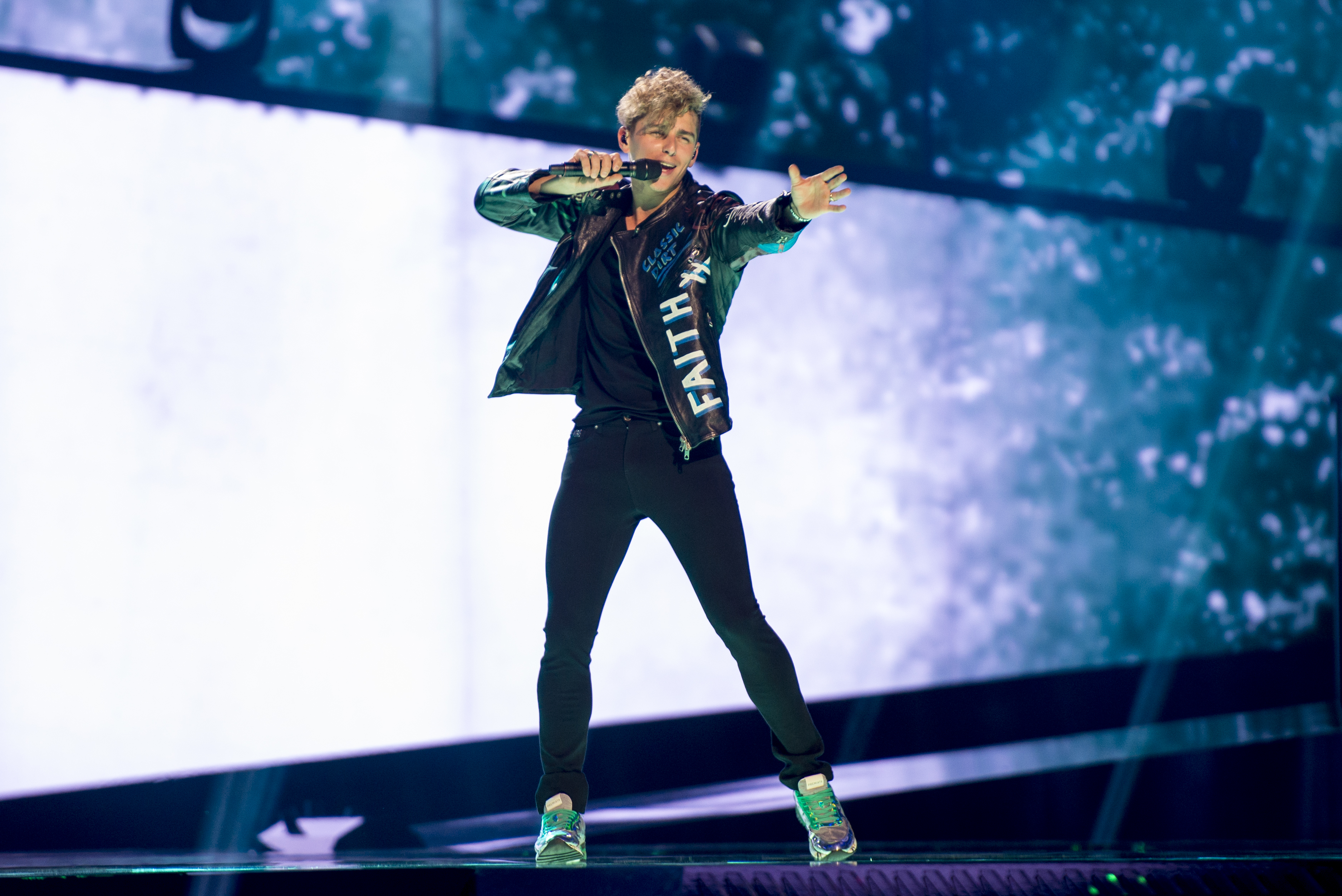 Donny Montell representing Lithuania with the song "I've Been Waiting for This Night" during a rehearsal before the second semi final of the Eurovision Song Contest 2016 in Stockholm. (Help translate this text)